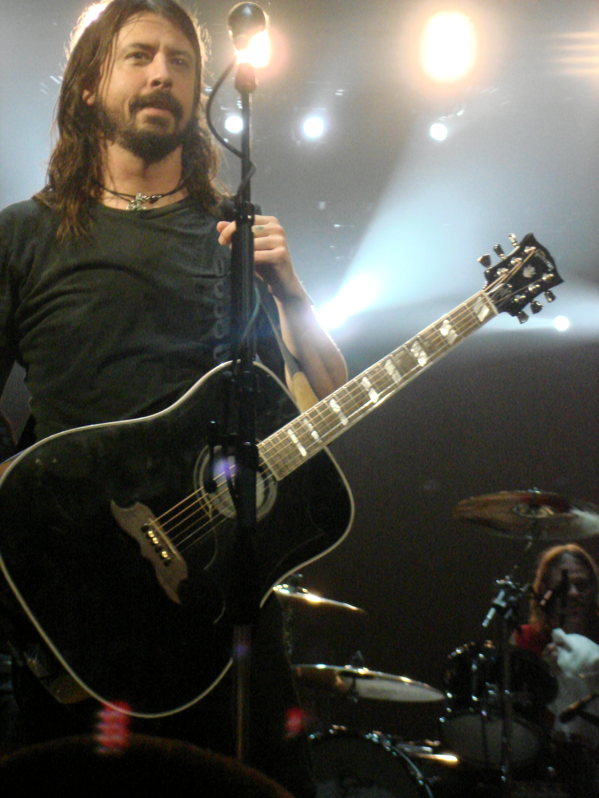 Dave Grohl, frontman of the Foo Fighters, on stage